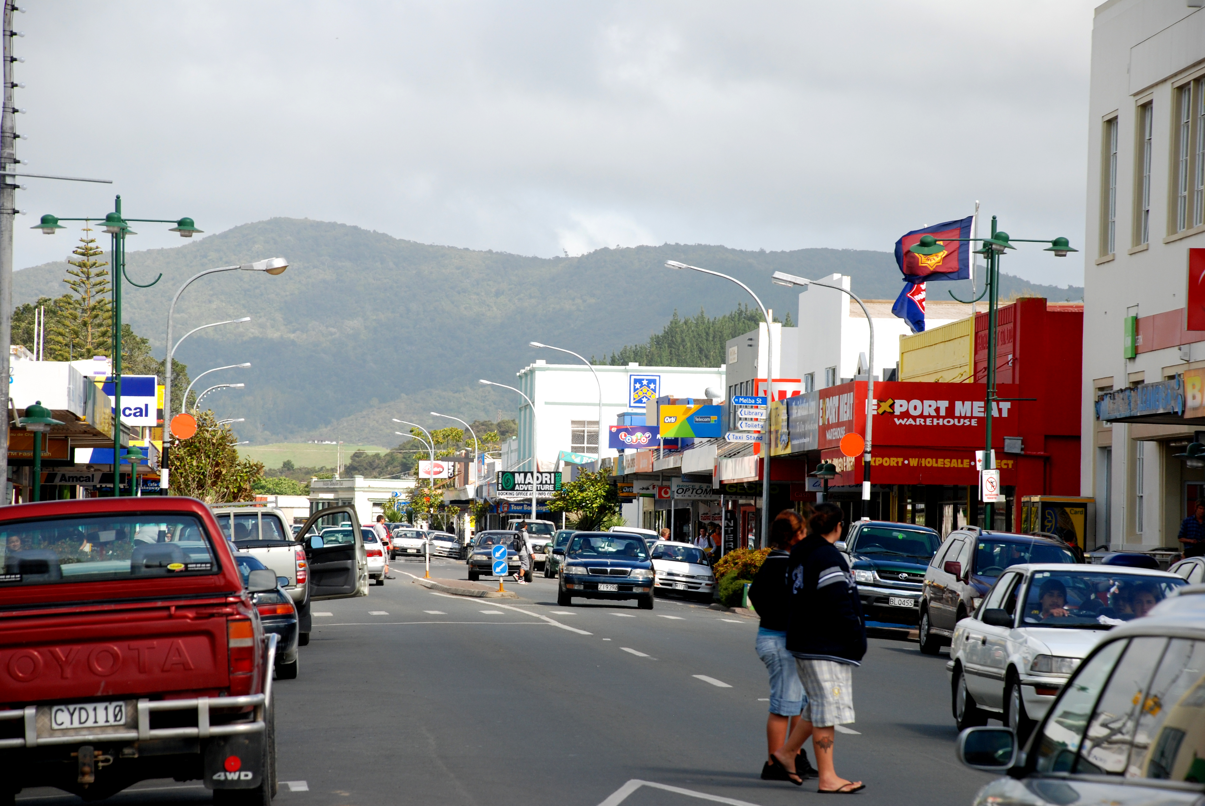 Main Street New Zealand - Kaitaia, Northland, October 2007